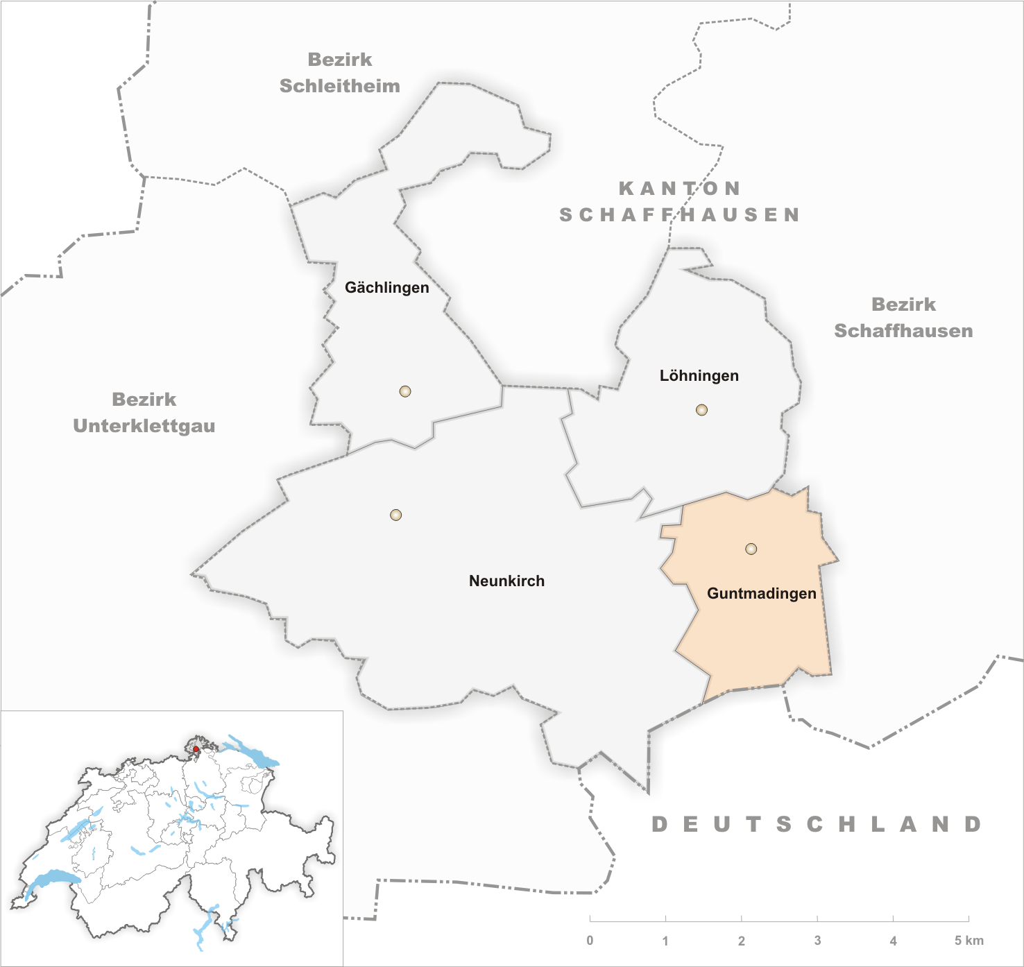 Municipality Guntmadingen